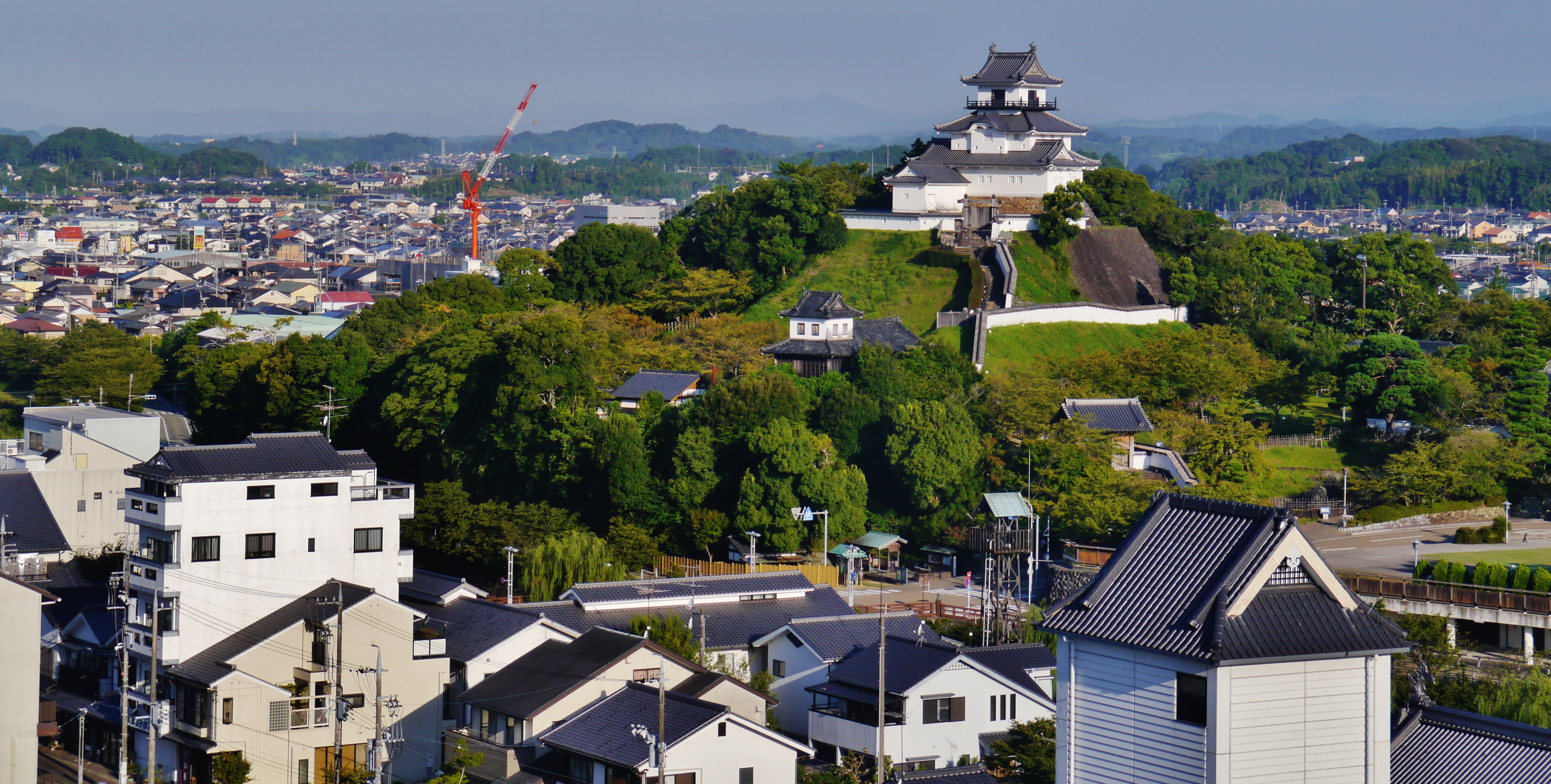 View from Dormy Inn Hotel to the Castle, Kakegawa, Prefecture of Shizuoka, Region of Chubu, Japan